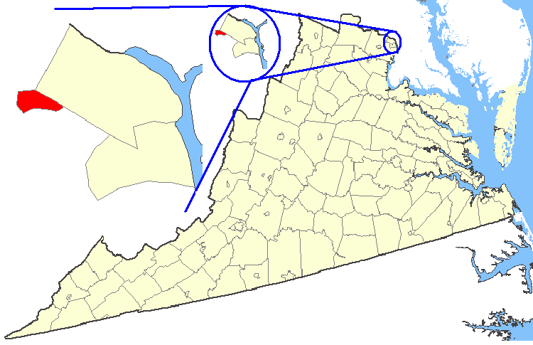 Maps of counties in Virginia